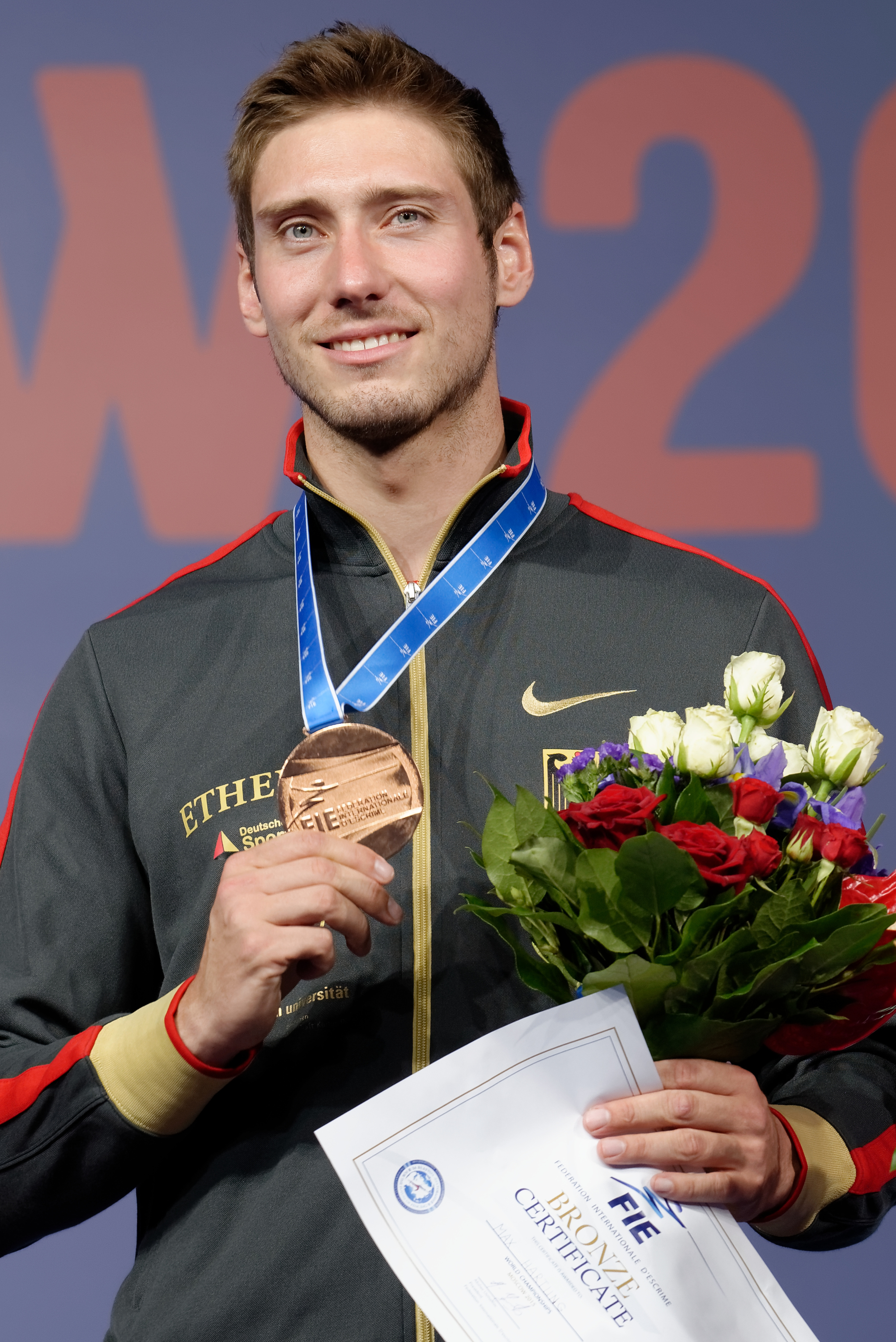 Germany's Max Hartung at the medal ceremony for men's sabre at the 2015 World Fencing Championships on 14 July 2014 at the Olympic Stadium in Moscow.